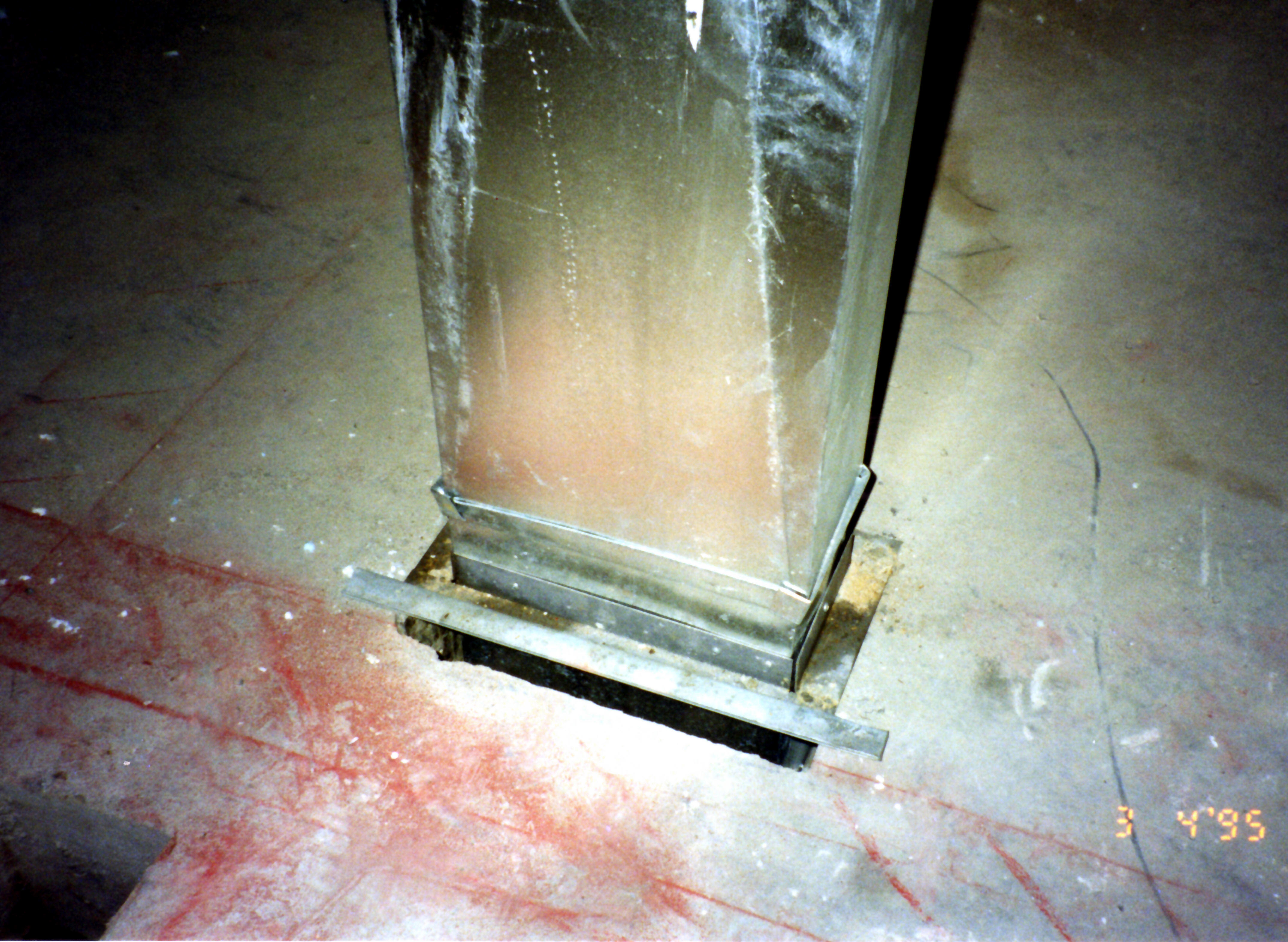 Fire Damper floor penetration in a two hour fire-resistance rated concrete floor slab. North American fire dampers require a gap around the outside of the damper, usually 1/8" per lineal foot of width. Without that, they can jam. This gap of course invites smoke migration around the outside of the damper, even if the inside is "smoke-rated". Caulking the gap up can cause a heat build-up that can cause the damper to collapse. A common deficiency is mis-sizing the openings so the sheet metal lip on the outside can't cover the hole. This is a very common code violation in North America. The key to the solution is a field check of each installed configuration against the certification listing that was supposed to be used.